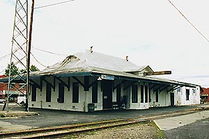 The Amtrak station in Jesup, Georgia in 2002.